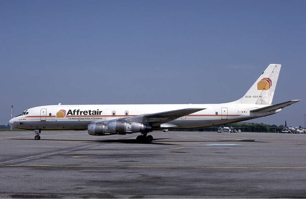 Affretair Douglas DC-8-55(F)